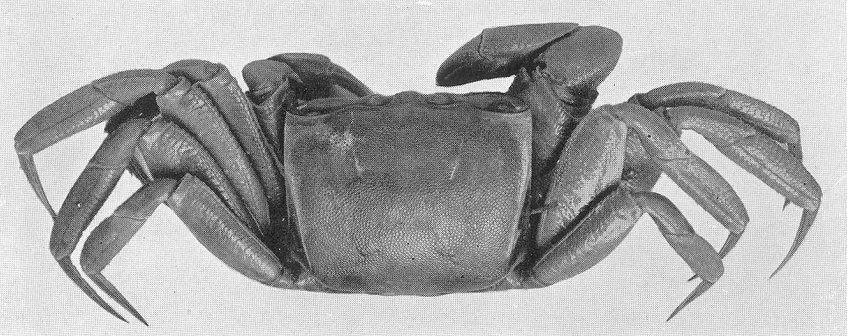 Ocypode africana (male, 29 mm wide) from the Congo river estuary